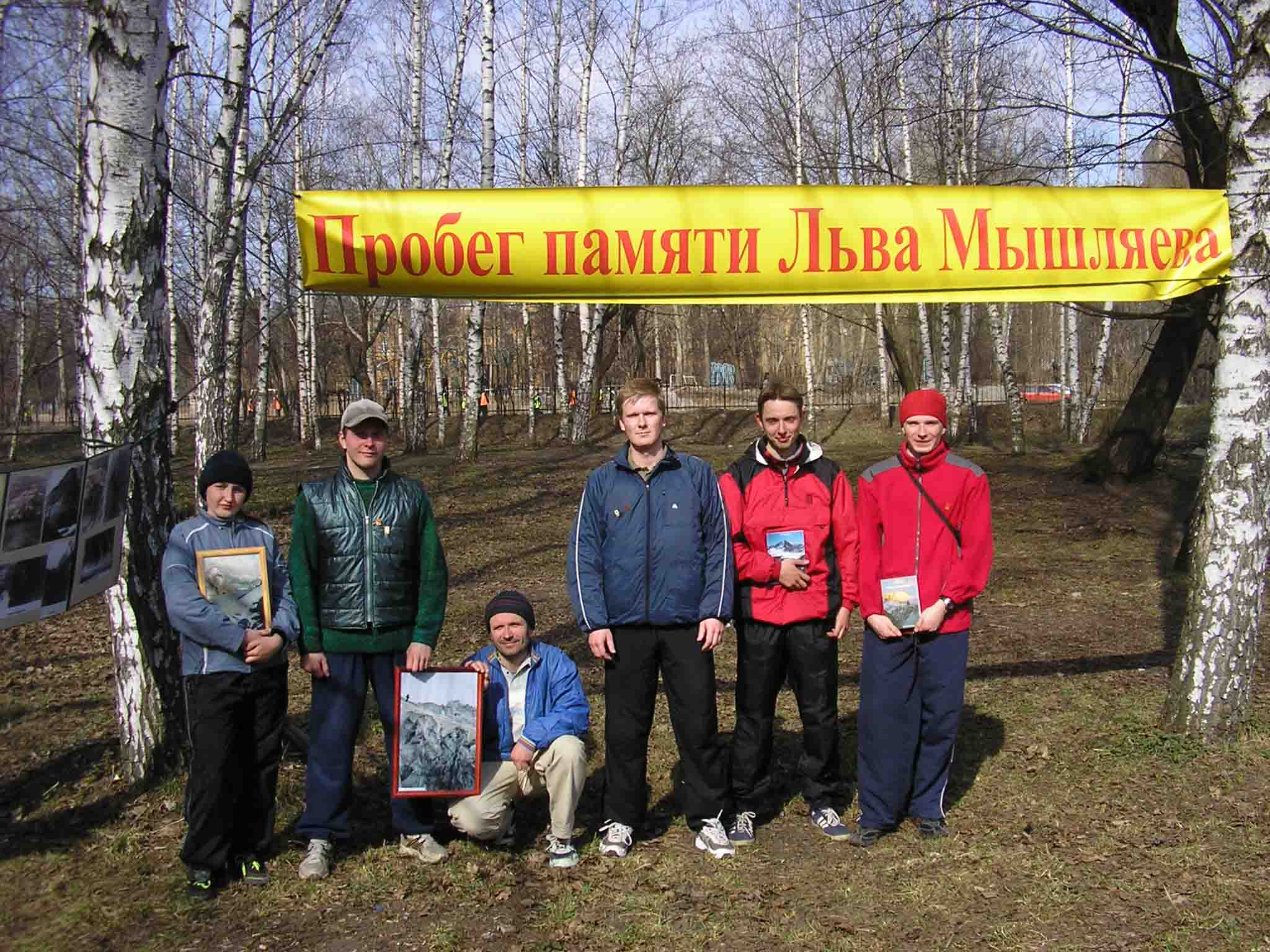 Memory run of Lev Myshlyaev